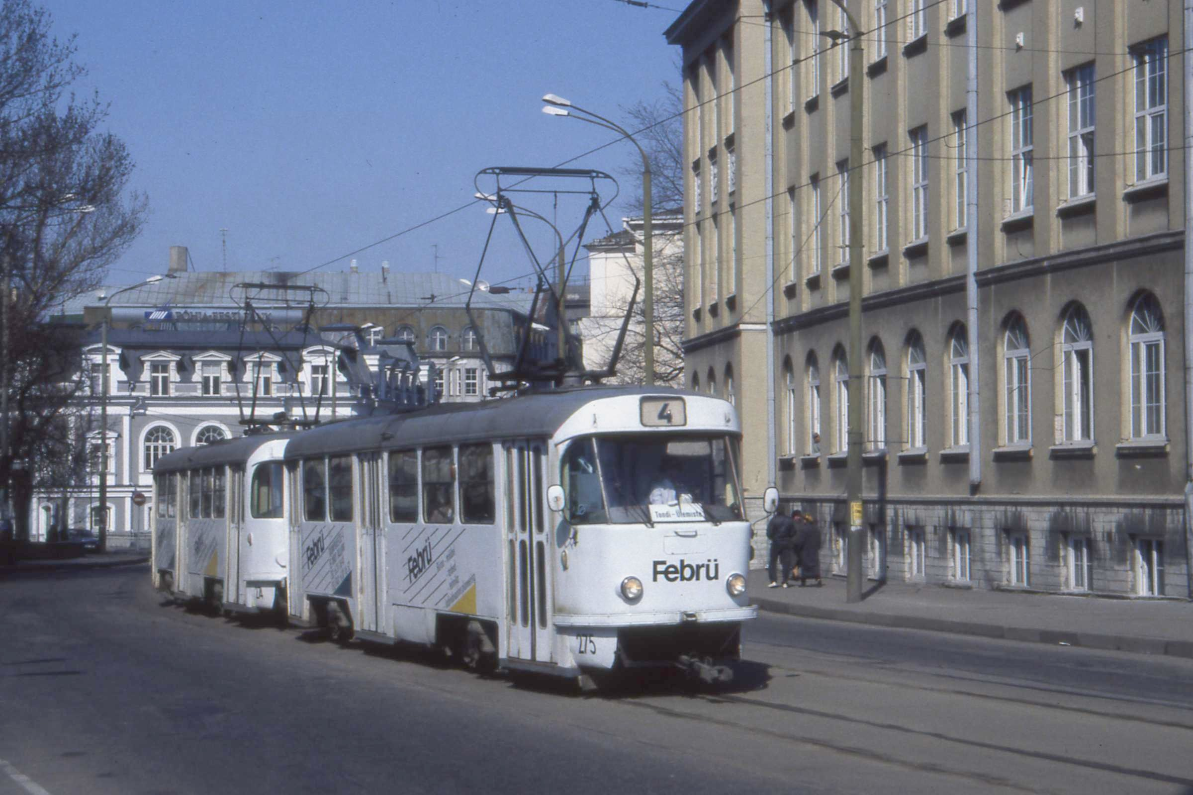 Two Tatra T4SU trams in Tallinn, Estonia